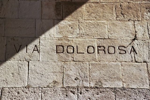 Old Jerusalem, Via Dolorosa, "Via Dolorosa" inscription under Arch of Ecce Homo